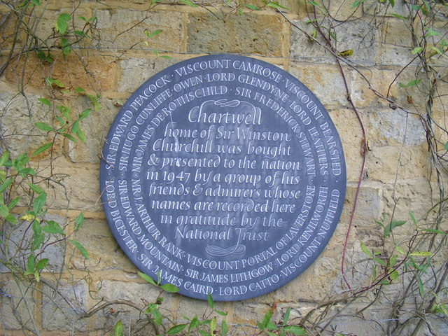 Plaque on wall at Chartwell